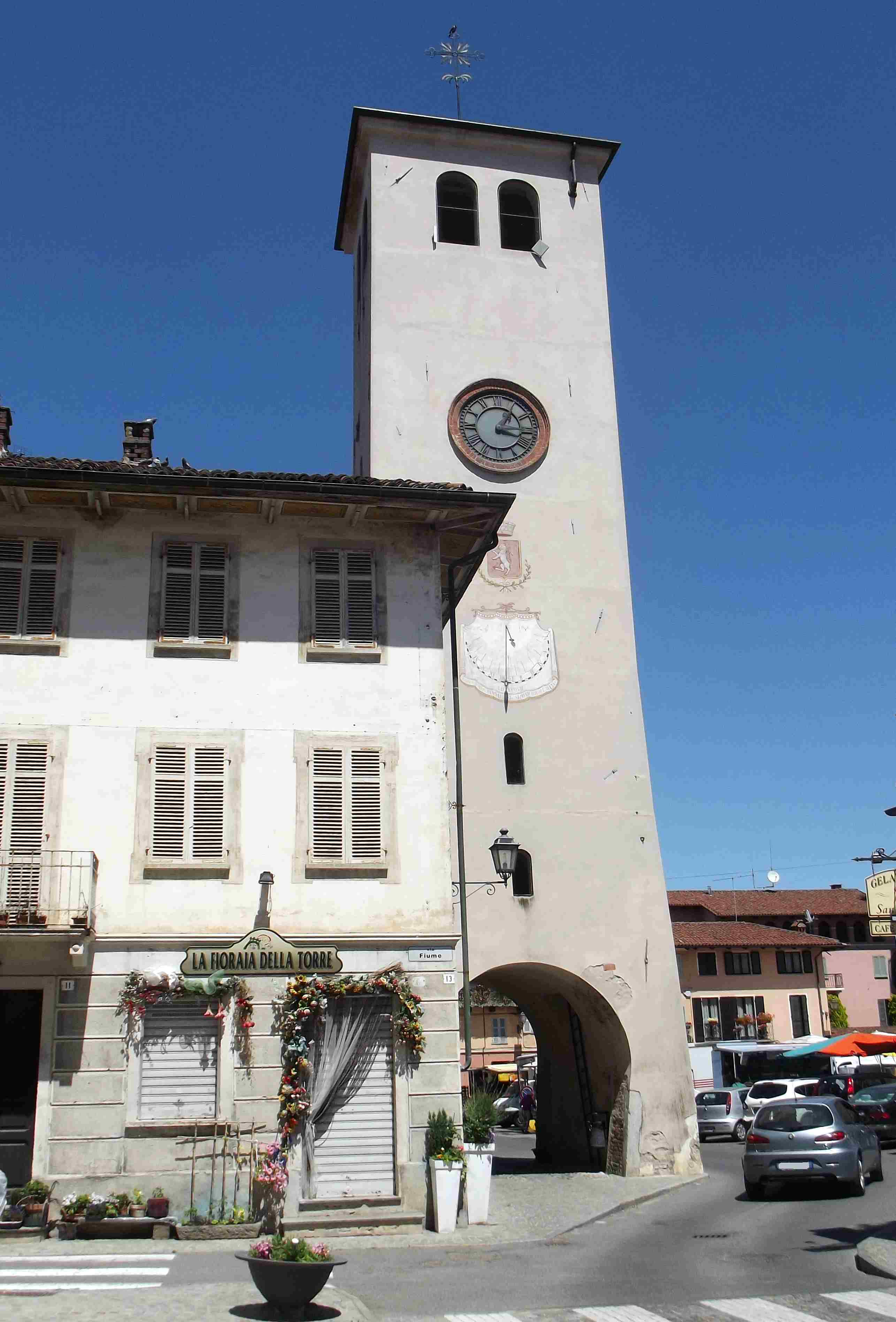 Villanova d'Asti (AT, Italy): central tower